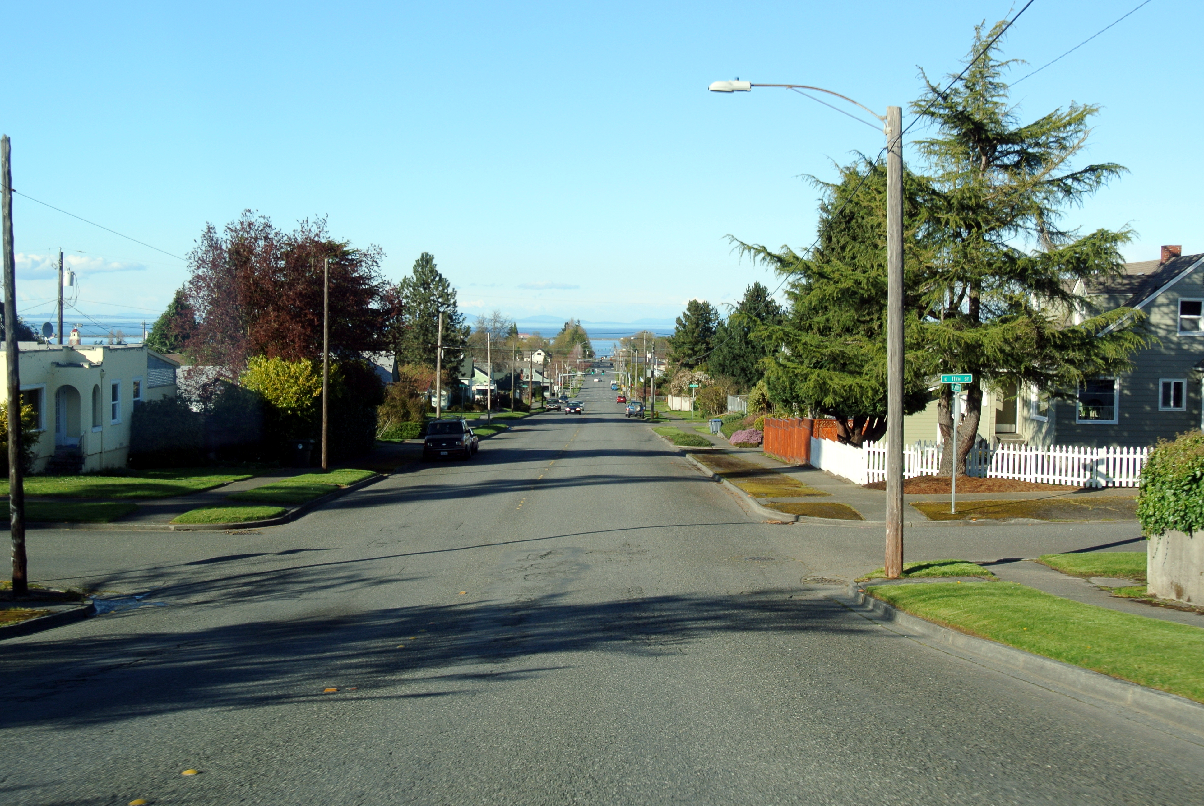 Crossroads in Port Angeles (E 11th St and S Peabody St), Strait of Juan de Fuca and Vancouver Island in the background. Nikon 1 V1 + 1 Nikkor VR 10-30mm f/3.5-5.6